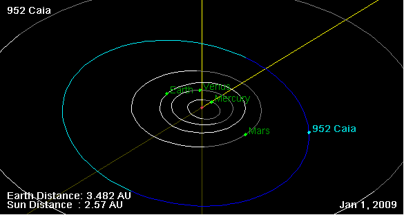 952 Caia orbit, and his position on 01 Jan 2009 (NASA Orbit Viewer applet)